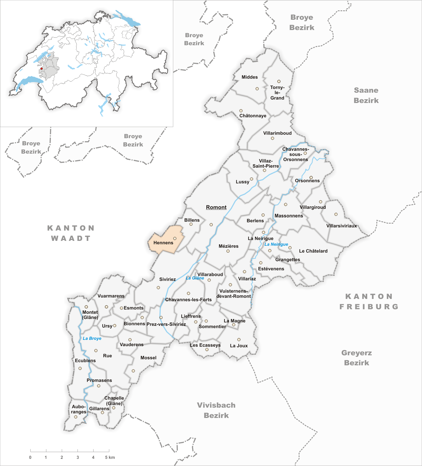 Municipality Hennens Artist: Tschubby